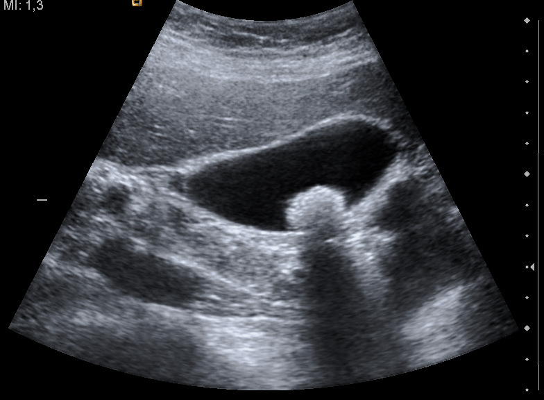 Ultrasound image of gallbladder stone, gallstone